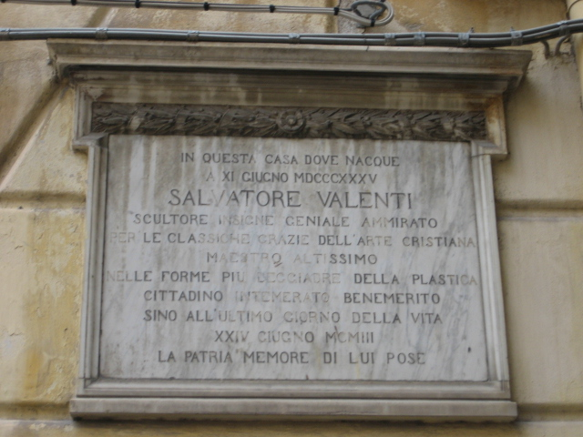 Plaque commemorating the Palermo.born sculptor Salvatore Valenti in the area of Albergheria, Palermo, Italy.